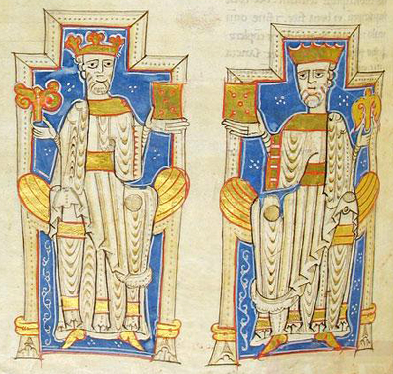 Ramon Berenguer III of Barcelona (left) with Alfonso Jordan of Toulouse (right)